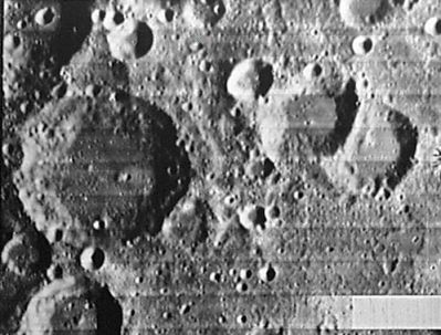 Baco is on the left, Ideler is the left-hand crater of the pair on the right.